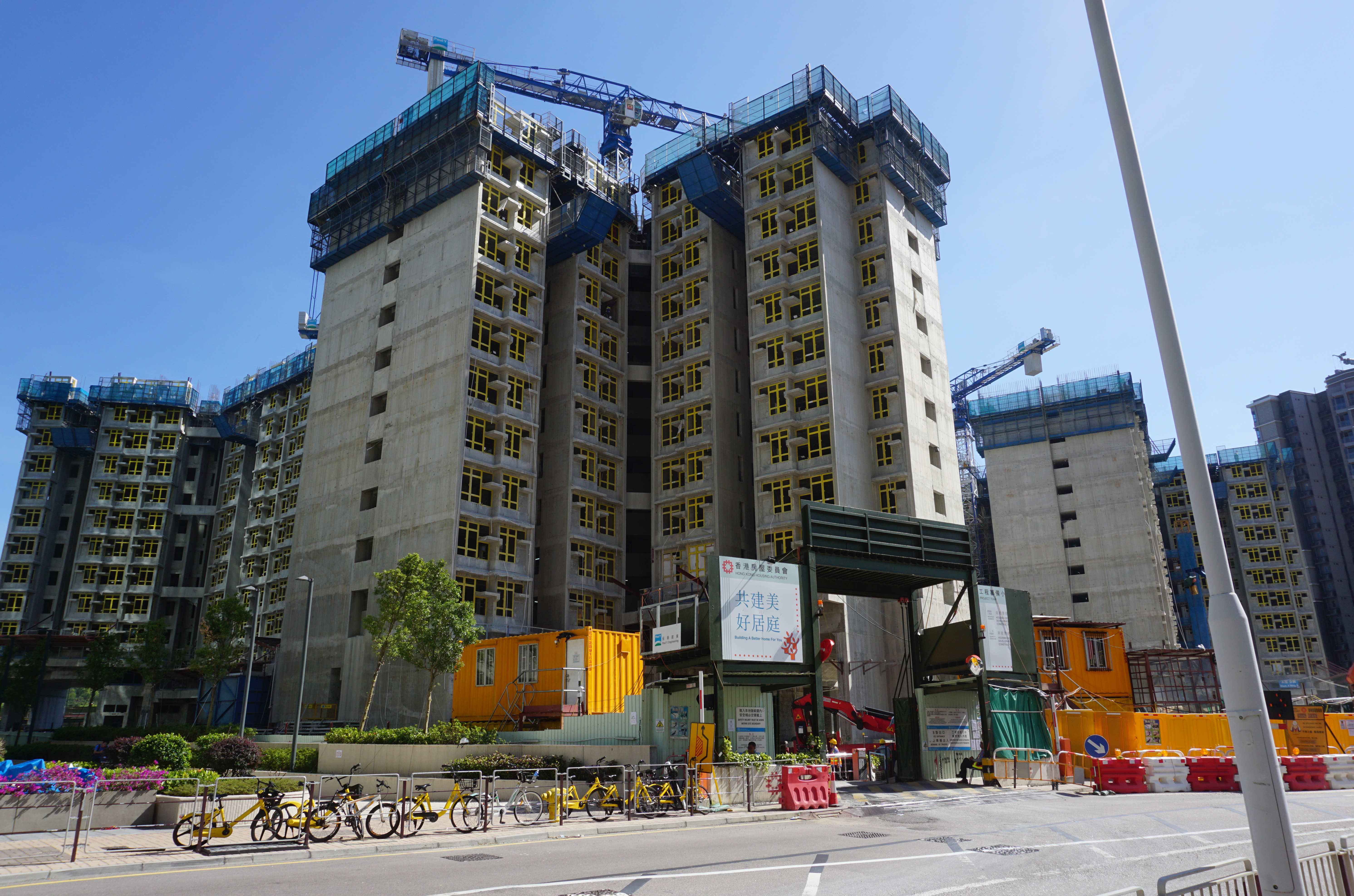 Yung Ming Court in Tseung Kwan O, Hong Kong.